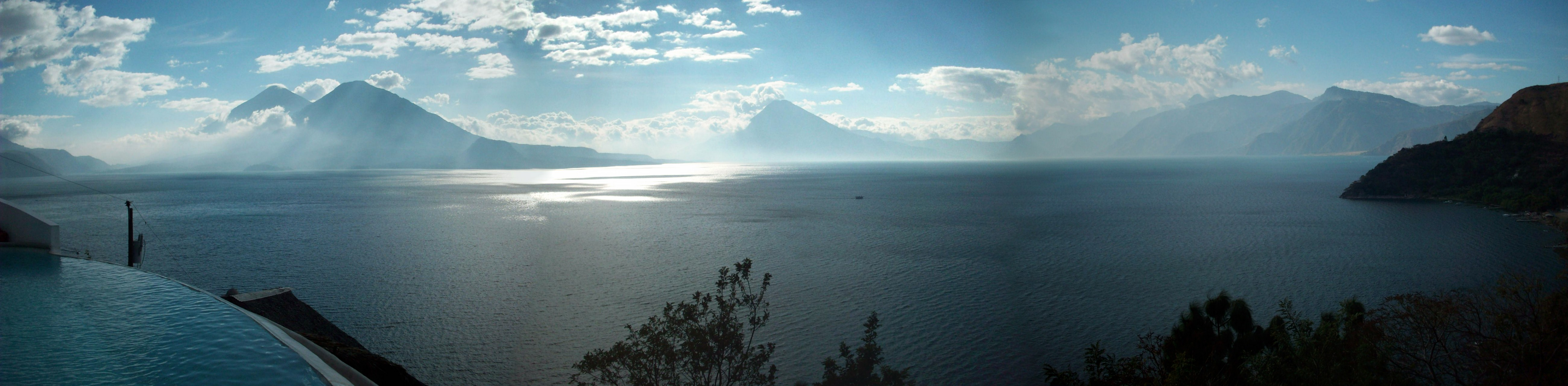 Picture taken on December 2007 on Tzam Poc Hotel, near Santa Catarina Palopó community. Volcanoes on the left are Volcán Atitlán and Volcán Tolimán, in the centre Volcán San Pedro.